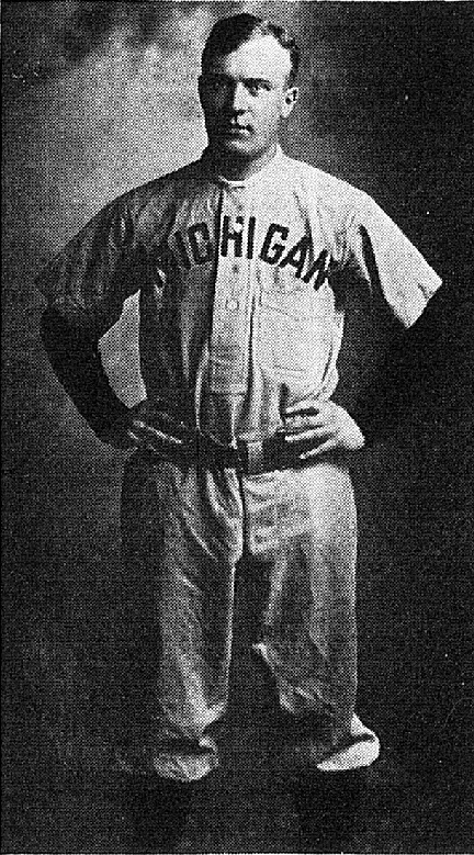 Photograph of Jack Enzenroth